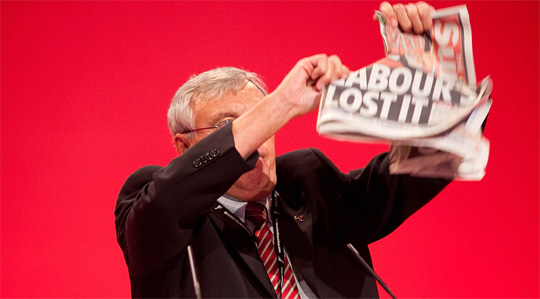 The Sun ripped up.